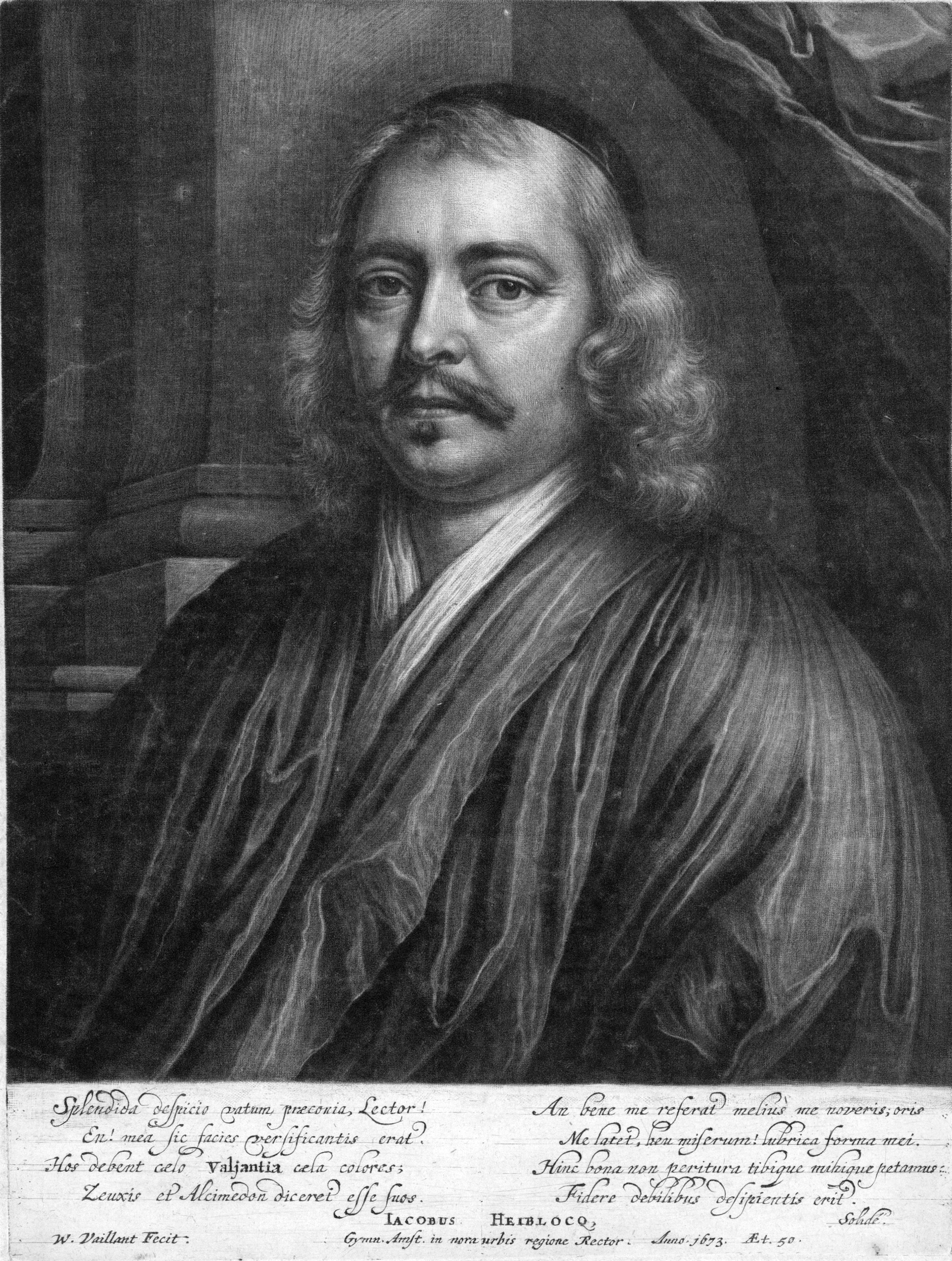 Jacobus Heiblocq (1623-1690) drawing 1673